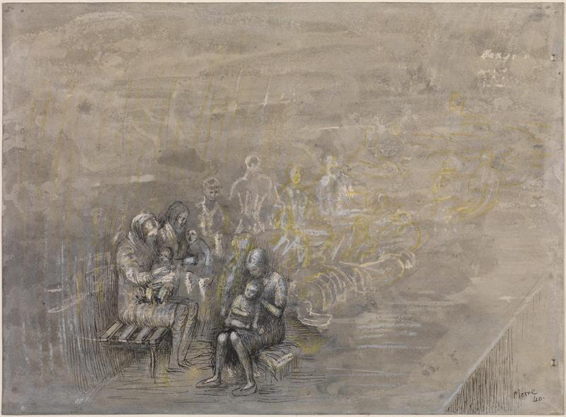 A view along the platform of a London Underground station as women and children settle down for the night during the Blitz.